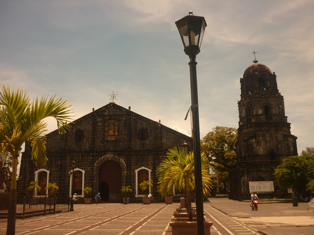 Tabaco Church. Photo courtesy of John P. Arcilla